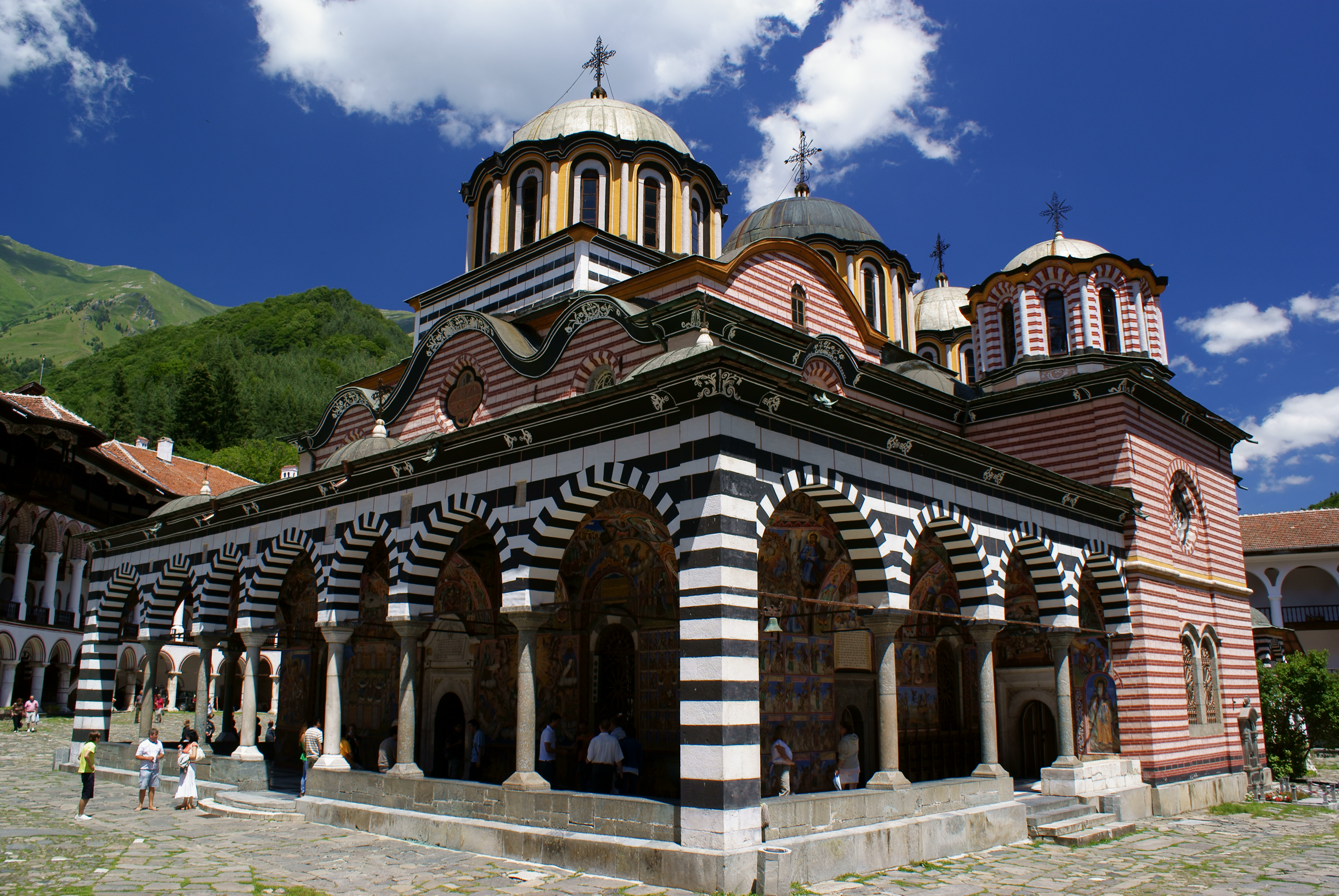 Рилски манастир